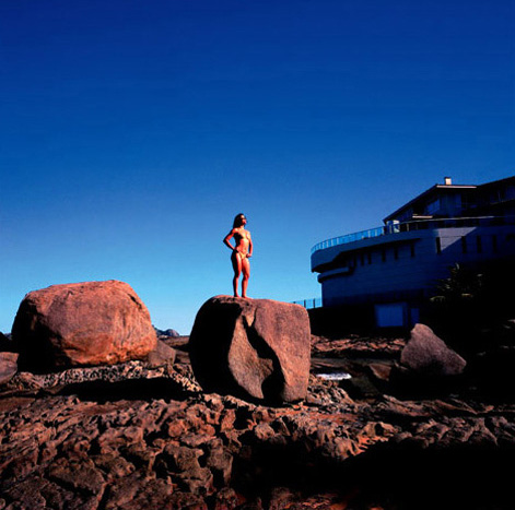 Livro Vitoria